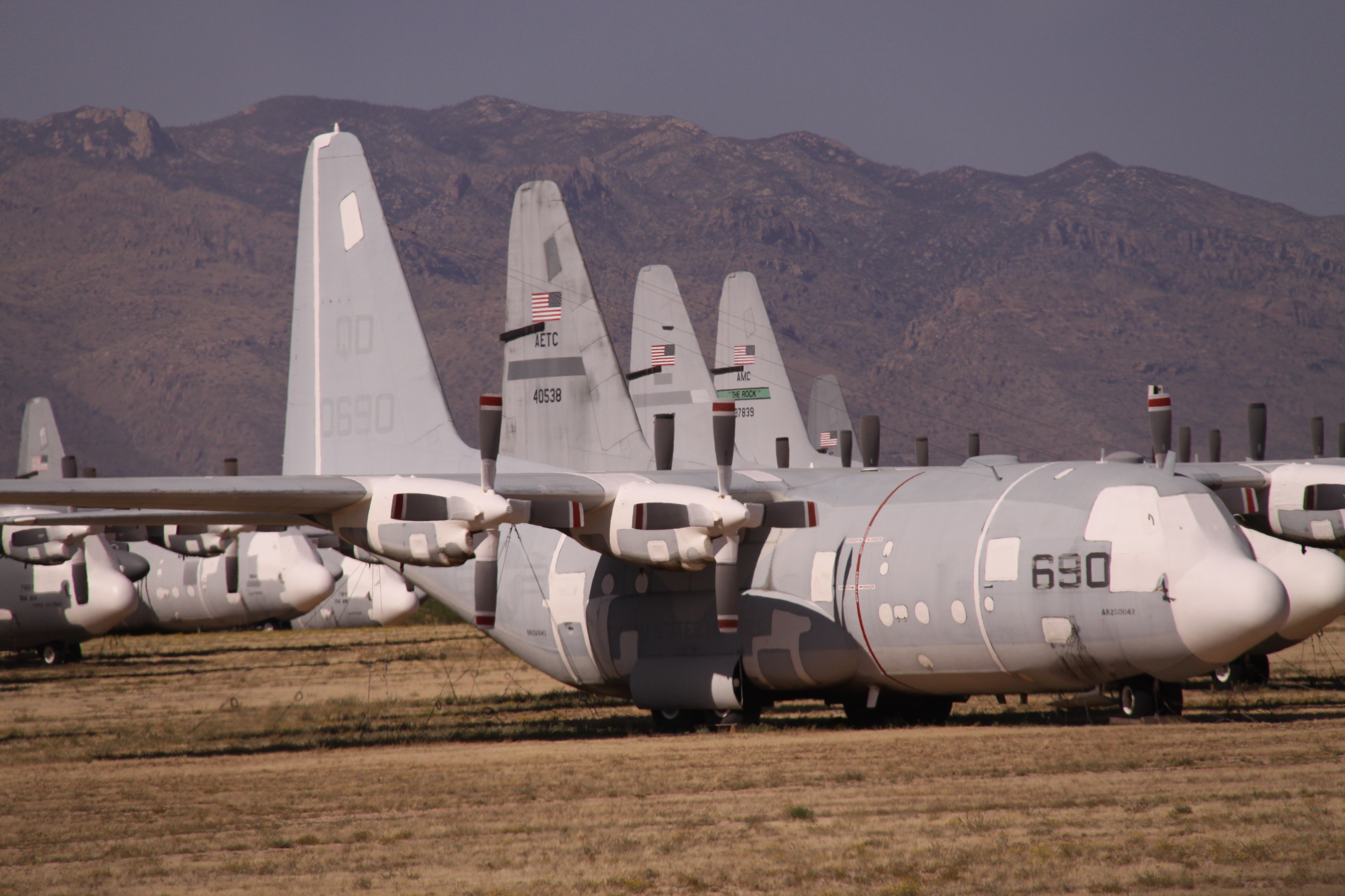 At Davis Monthan AFB